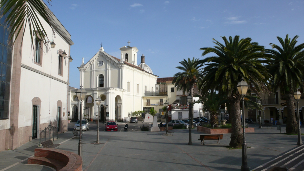 central place of Castel Volturno, Caserta, Campania, Italy with town hall (municipio) and church (La Chiesa dell'Annunziata: church of annunciation)